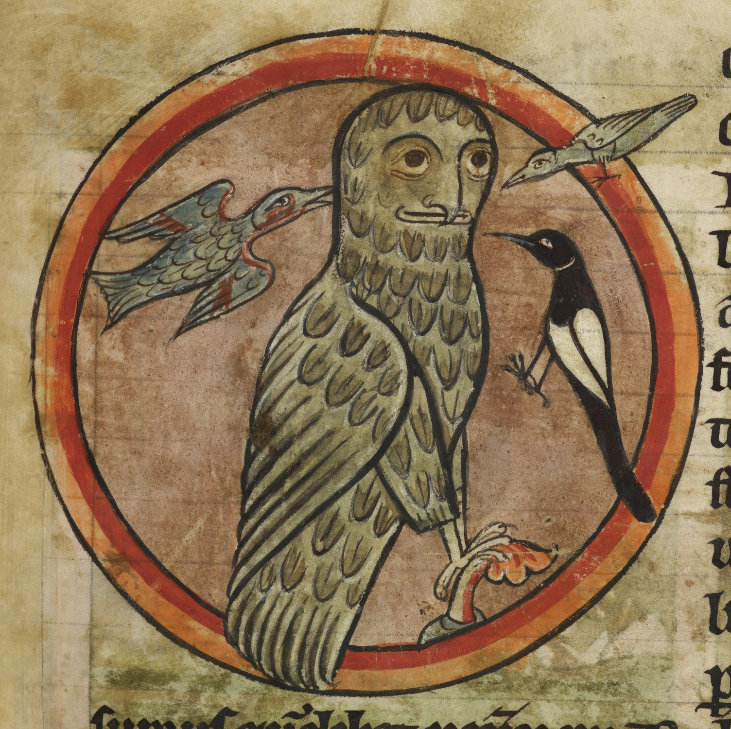 Owl mobbed by smaller birds (Miniature) An owl, venturing out in daylight contrary to its usual habit, is mobbed by smaller birds.